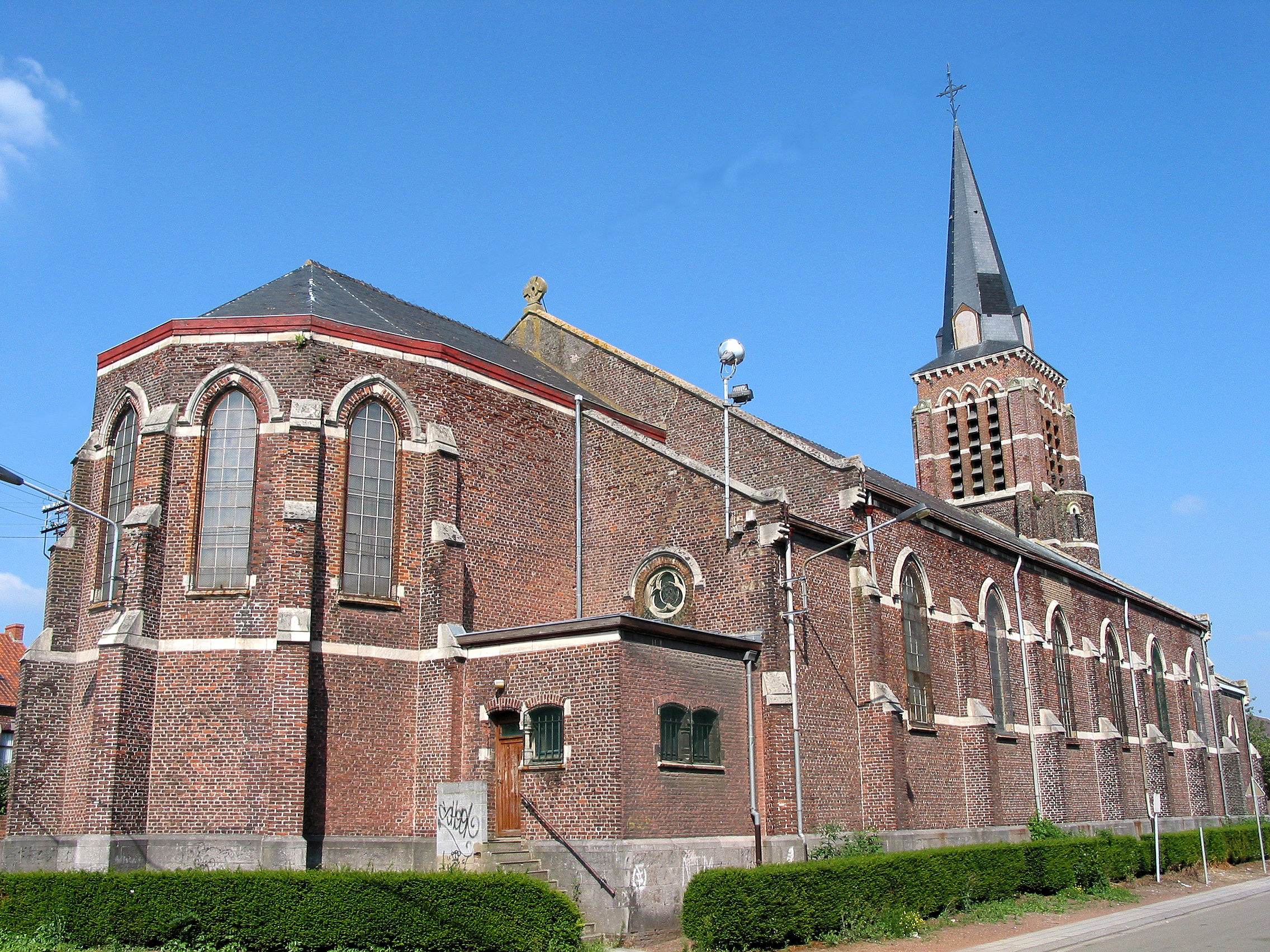 Boussu-Bois (Belgium), the St Charles church.